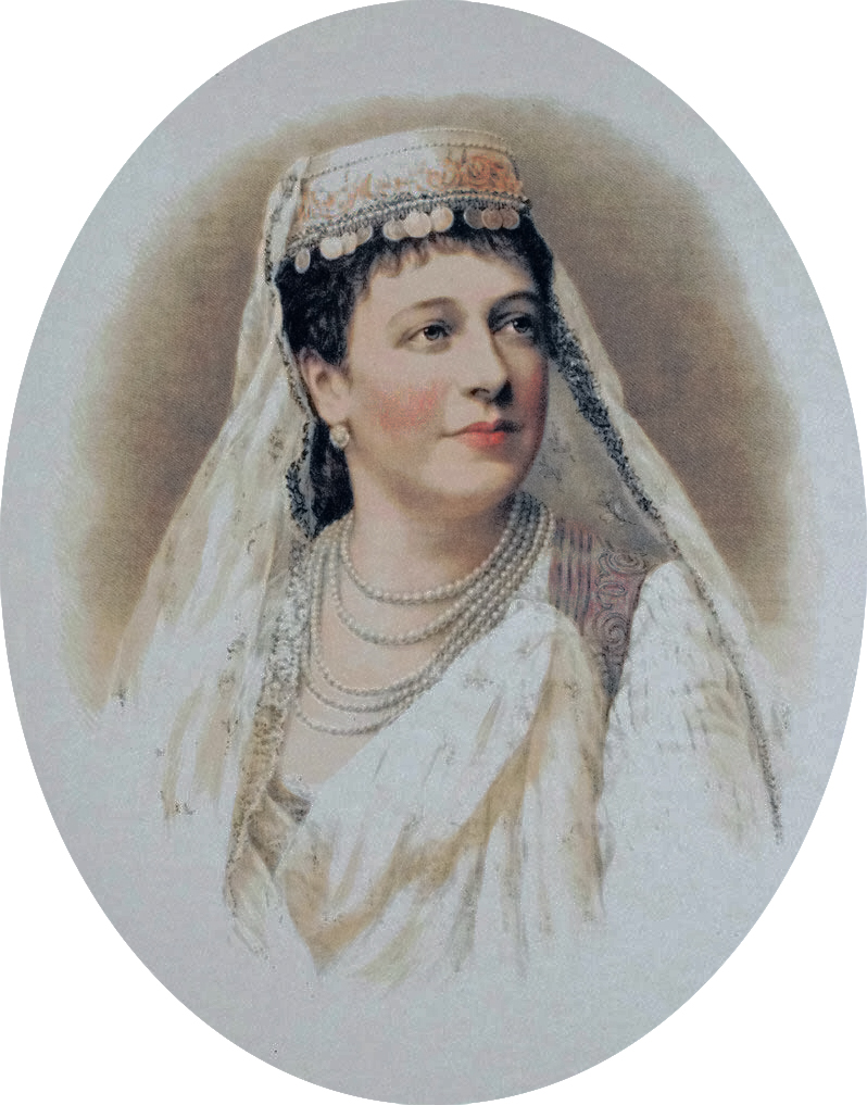 Marie (Lajeunesse) Gye, 'Madame Albani', Singer chromolithograph